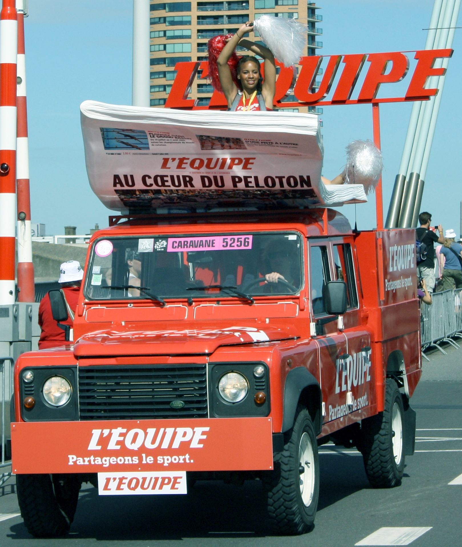 L'Équipe car at the start of the first stage of the 2010 Tour de France in Rotterdam